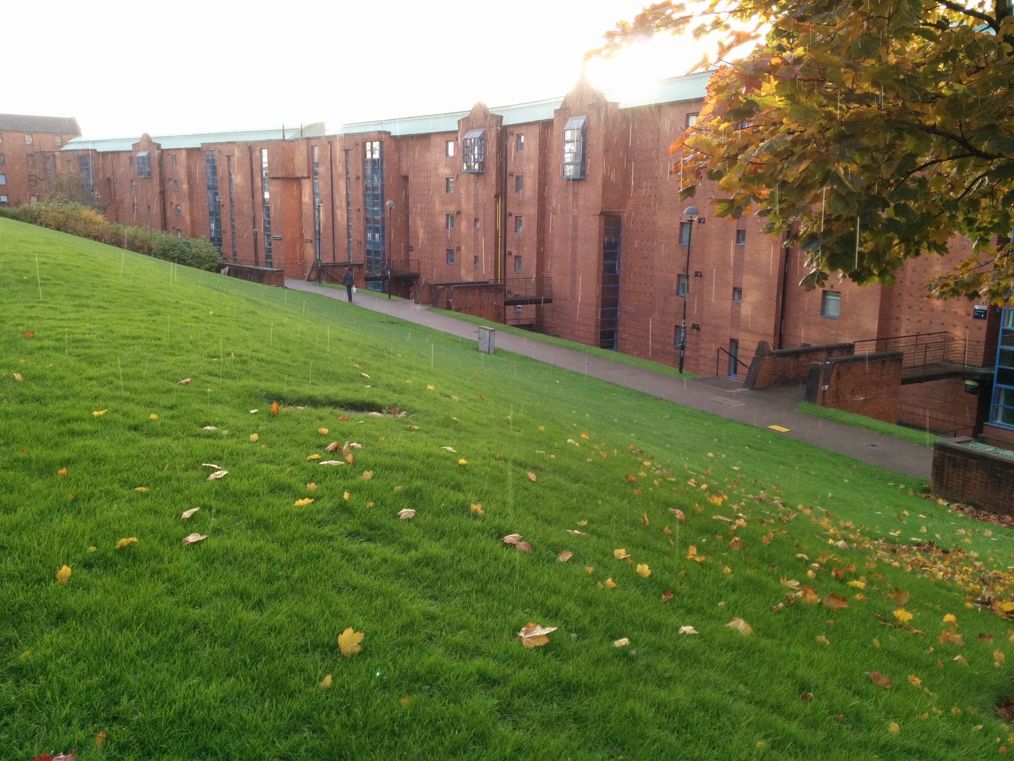 Picture of James Blyth Court (Strathclyde)